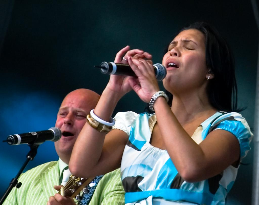 hermes house band